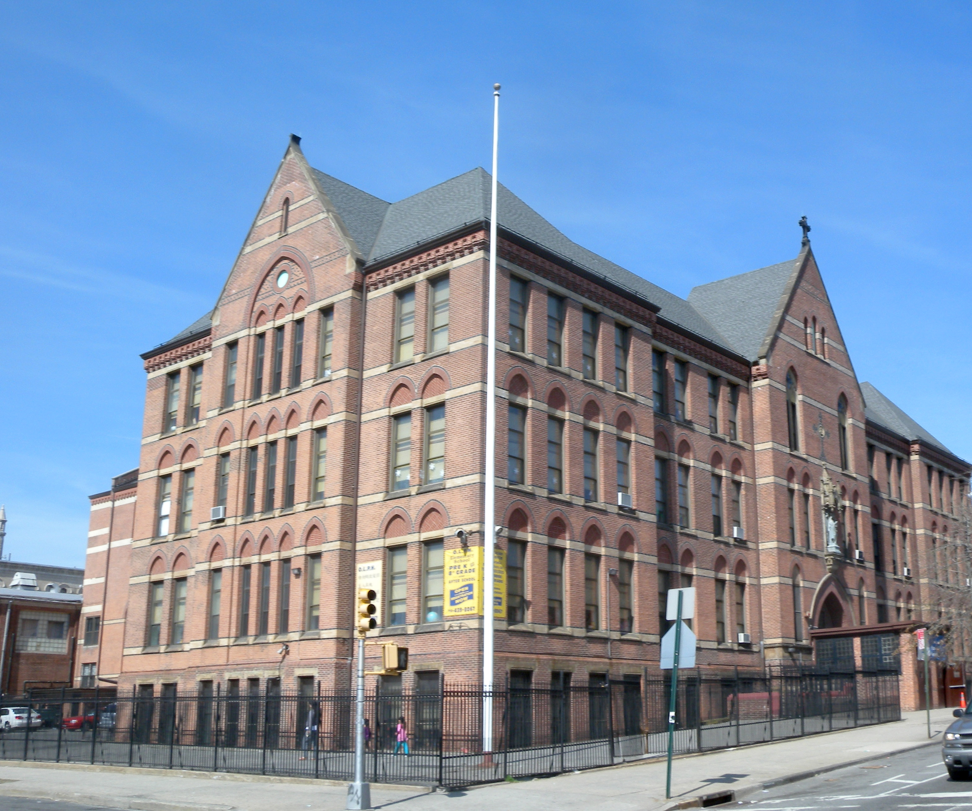 Looking north across 6th Avenue and 60th Street at OLPH Elementary School on a sunny early afternoon.